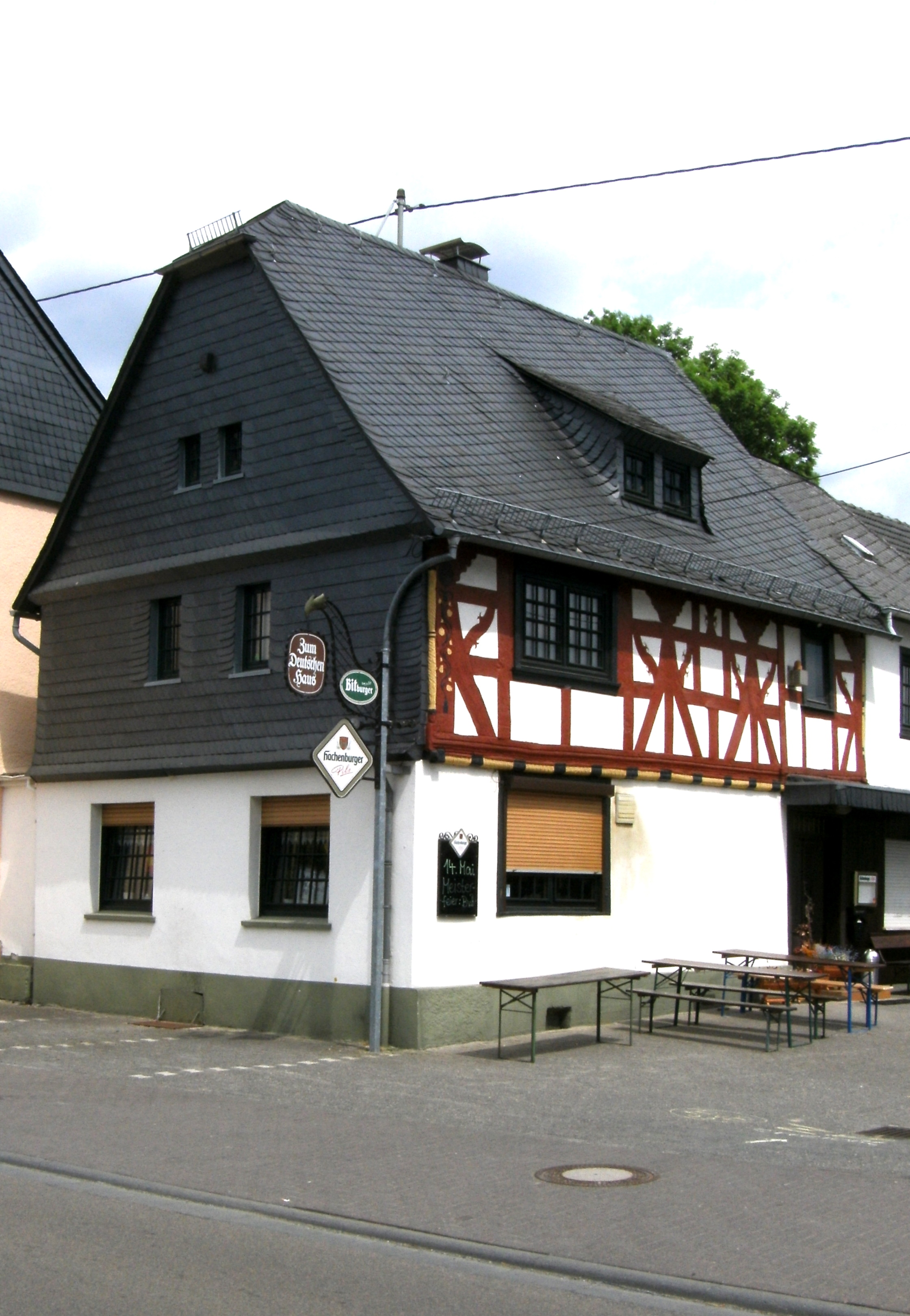 Dwelling House Langstrasse 22 in Hadamar-Steinbach, Germany